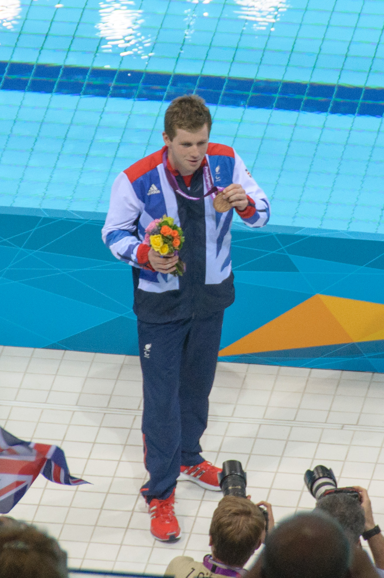 James Clegg's bronze in the Men's 100m Butterfly S12s. Paralympic Swimming - Evening (Finals) session, 2 September 2012